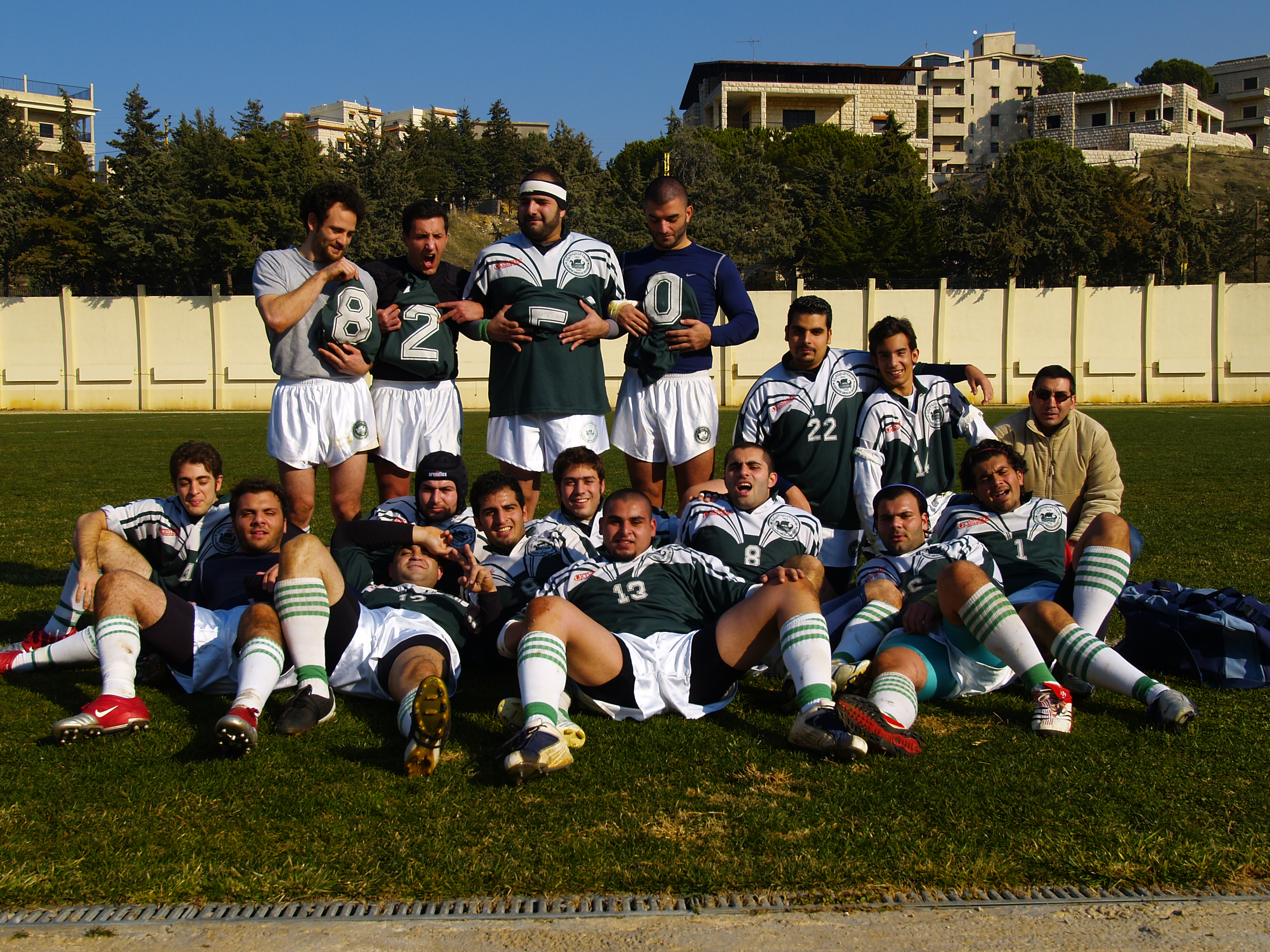 The Lebanese Rugby League Championship Winning Margin Record LAU IMMORTALS RLFC 82-0 Club Libanais (now known as Jounieh Al Galacticos RLFC)January 14th, 2007. This Picture was taken after the game